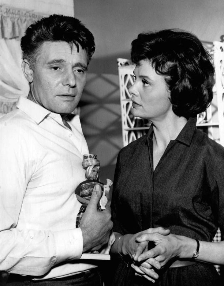 Photo of guest star Harry Guardino and series regular Bettye Ackerman as Maggie Graham from the television program Ben Casey.